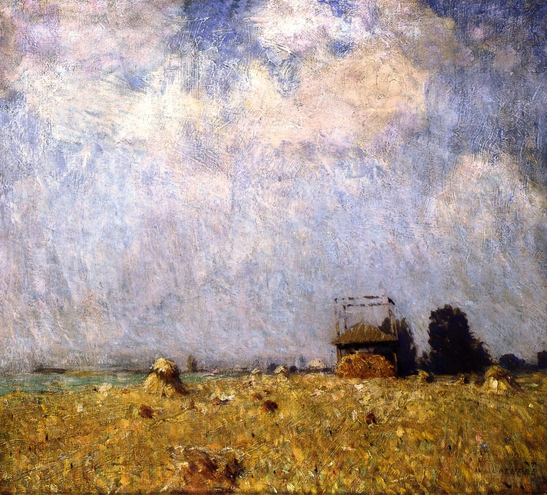 Summer Afternoon by William Langson Lathrop, c. 1915, oil on canvas, 21 1/2 x 24 3/8 in., Palmer Museum of Art